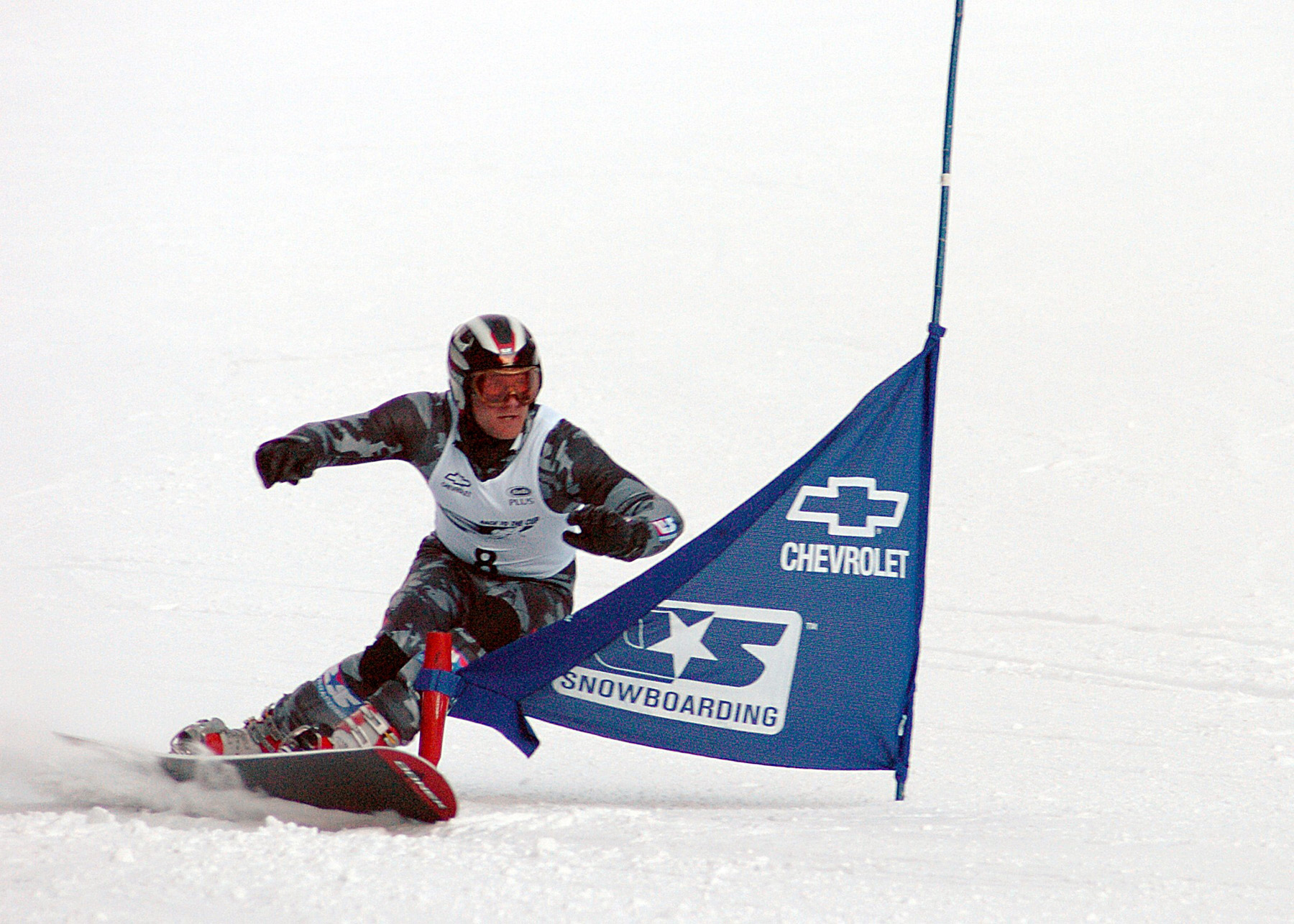 Spc. Ryan McDonald, a member of the U.S. Army World Class Athlete Program, slides around a gate on the slalom course at Copper Mountain, Colo., during the 2005 Continental Cup November 21 and 22. McDonald is vying for a spot on the U.S. Winter Olympic team and a chance to represent the United States in the XX Winter Olympics at Torino, Italy